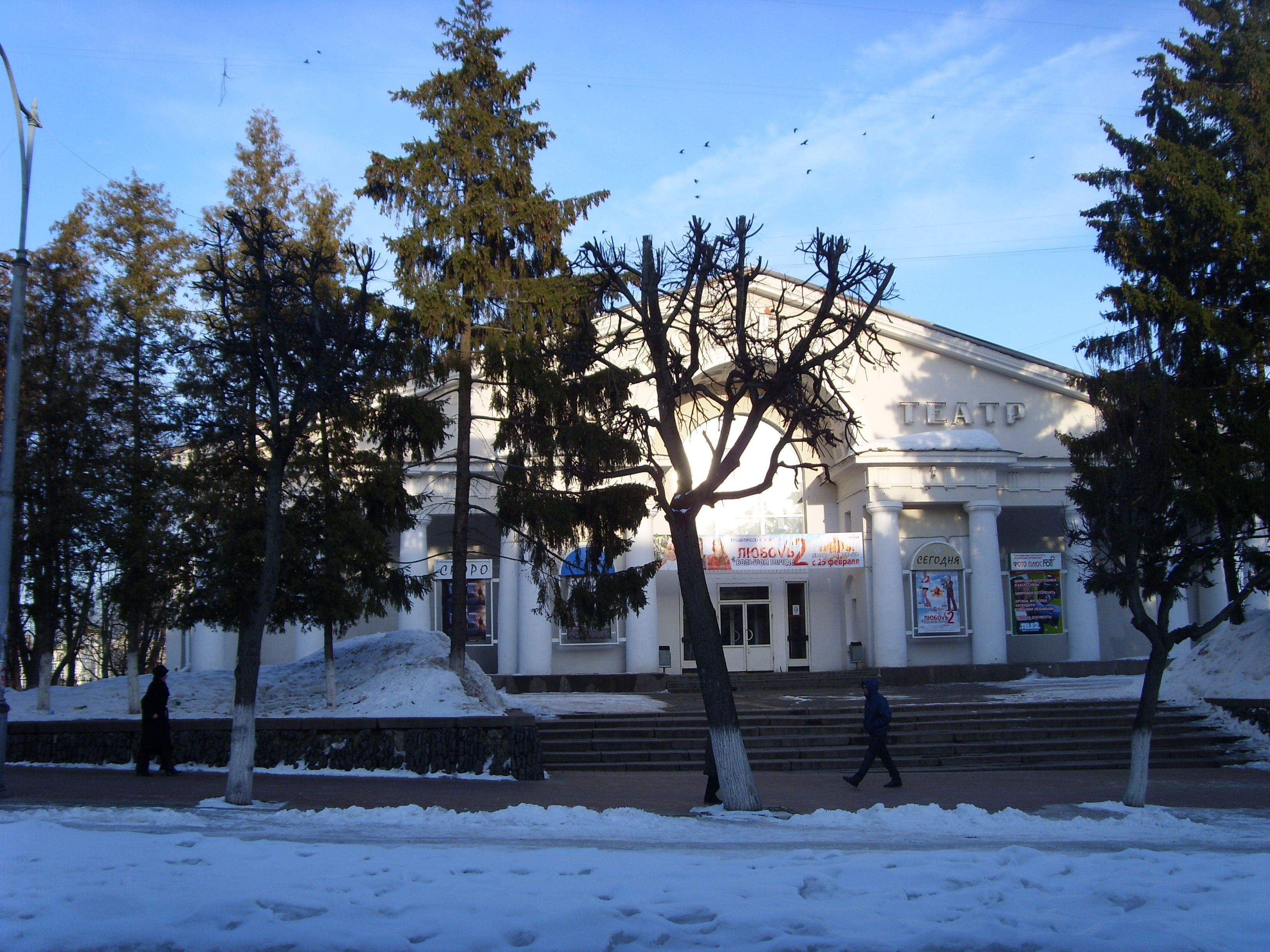 building of cinema theatre "Pobeda" (Victory), former St.George church. View from Lenin Street